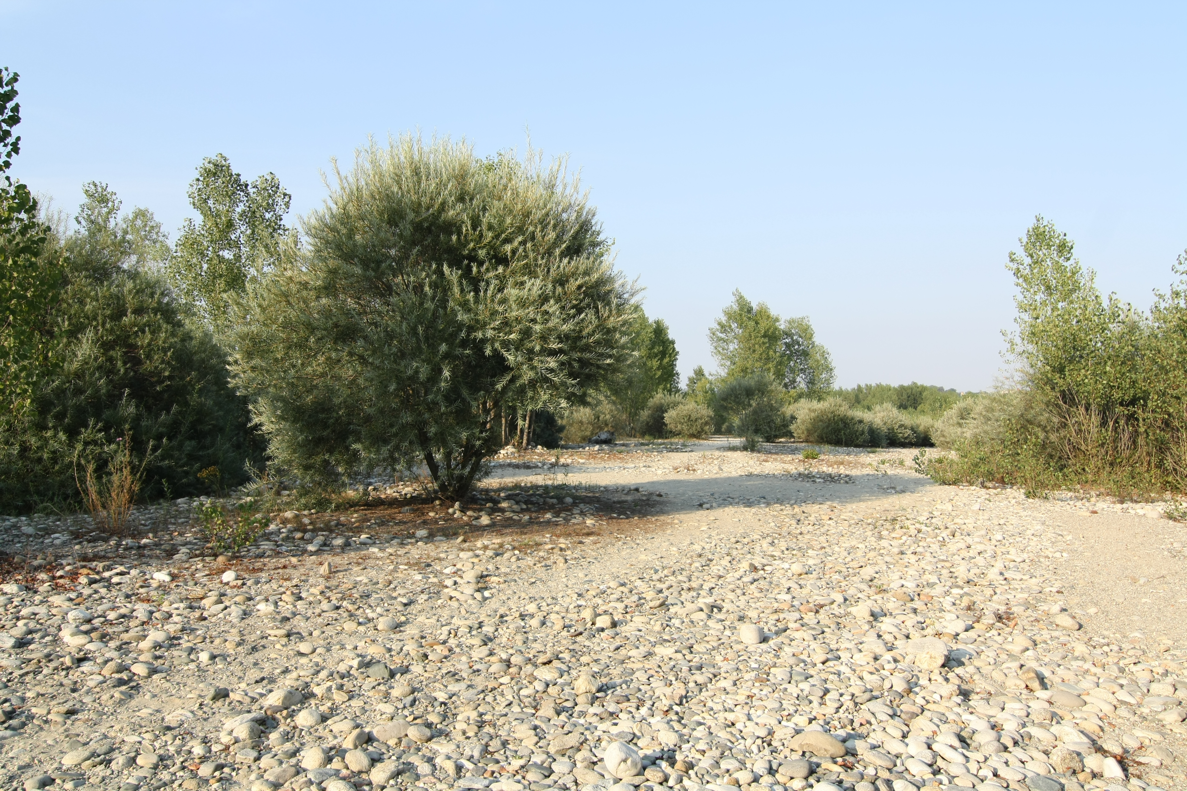 Ticino river near Vizzola Ticino.